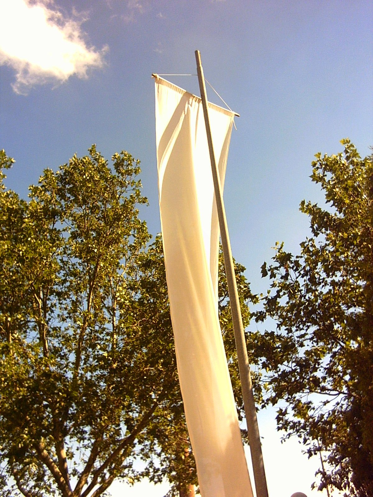 White Flag: All students passed their final examns on that day (At the Main Entrance of HTL Donaustadt, a Higher Technical School in the 22nd Discrict of Vienna, Austria (For details read HTL Donaustadt (german))